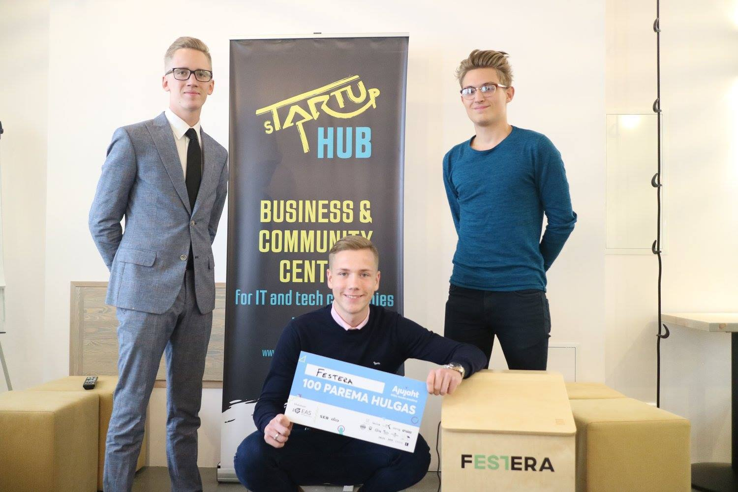 sTARTUp HUB - .Cocoon program team Festera